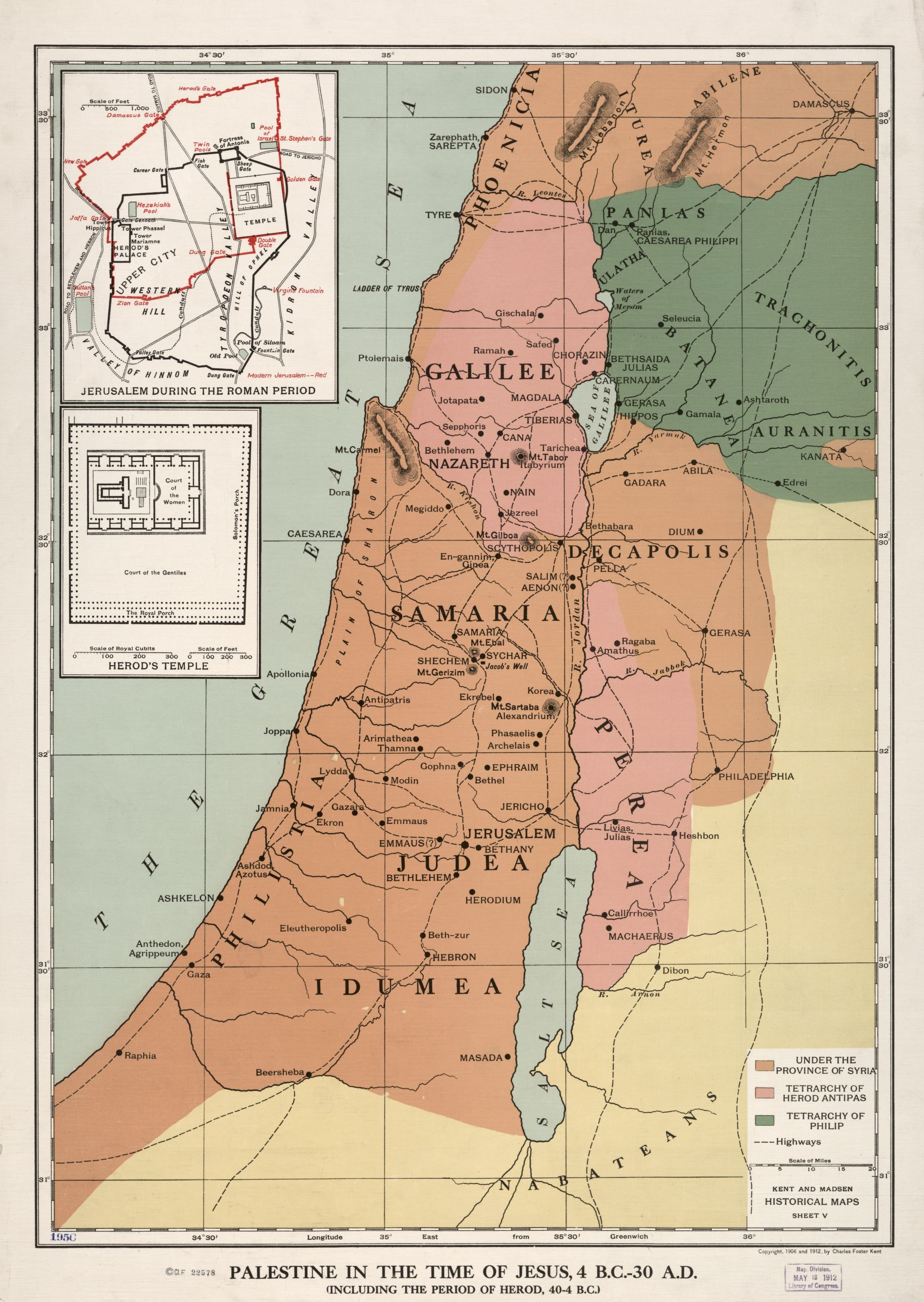 Palestine in the time of Jesus: 4 BC - 30 AD.